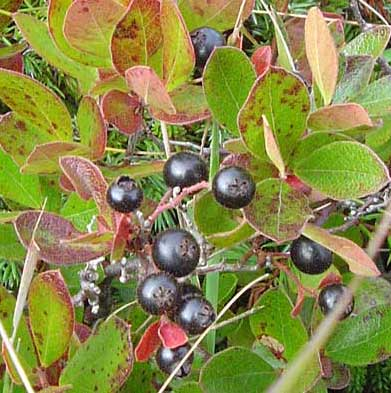 Bog Huckleberry at Polly's Cove, Nova Scotia